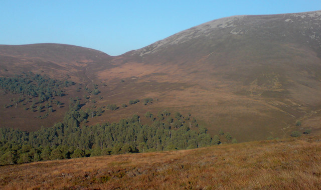 The head of the Allt Nam Bo (burn of the cattle) The bealach between Creag Mhigeachaidh & Gael Charn